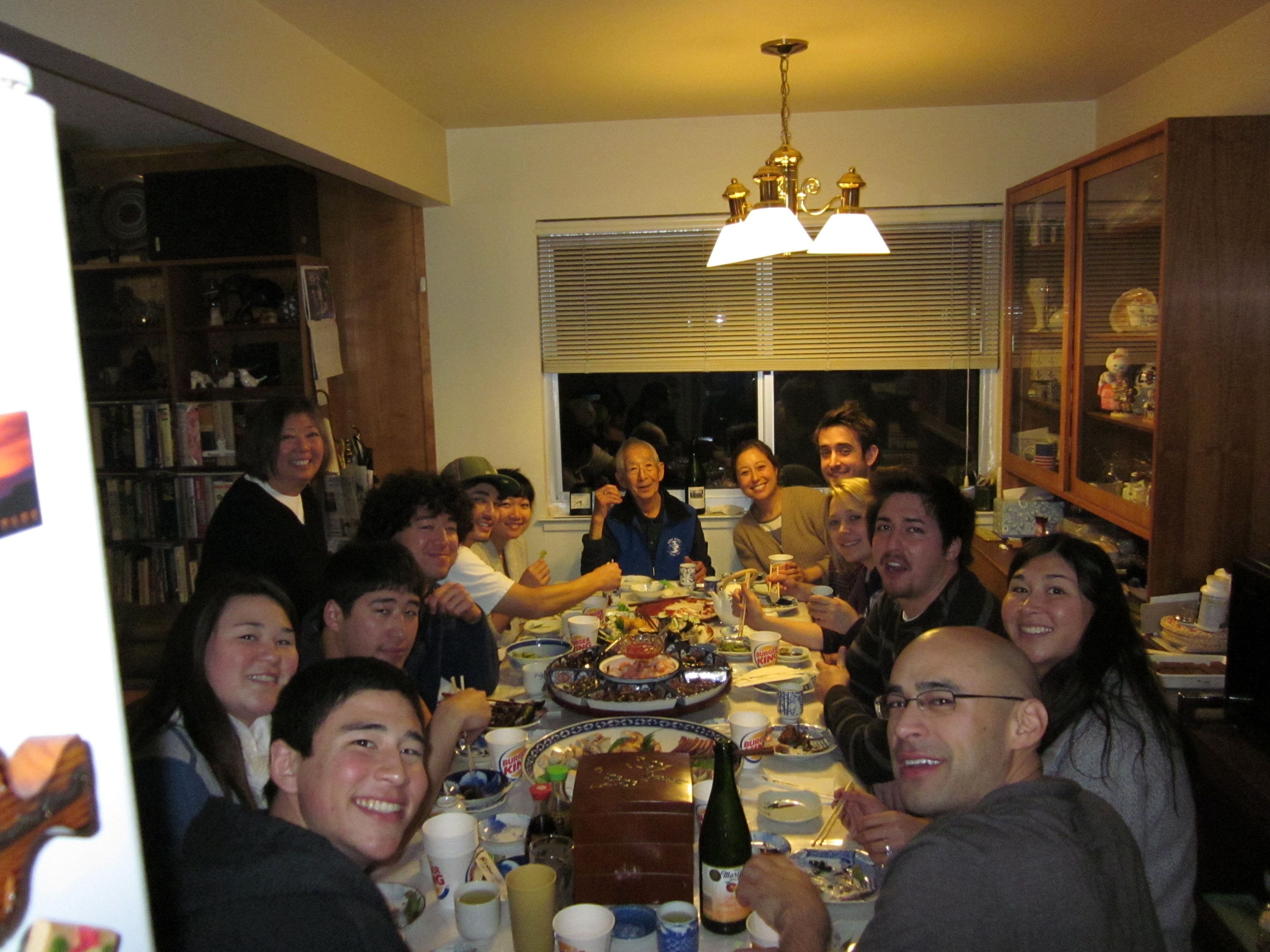 Photo